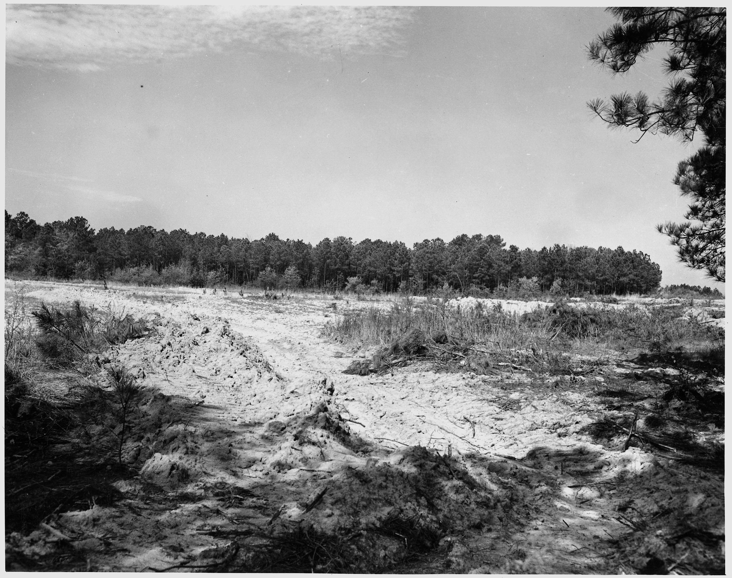 Scope and content: Full caption reads as follows: Newberry County, South Carolina. Submarginal private lands inside the Sumter National Forest which should be in trees instead of terraced for cultivation.